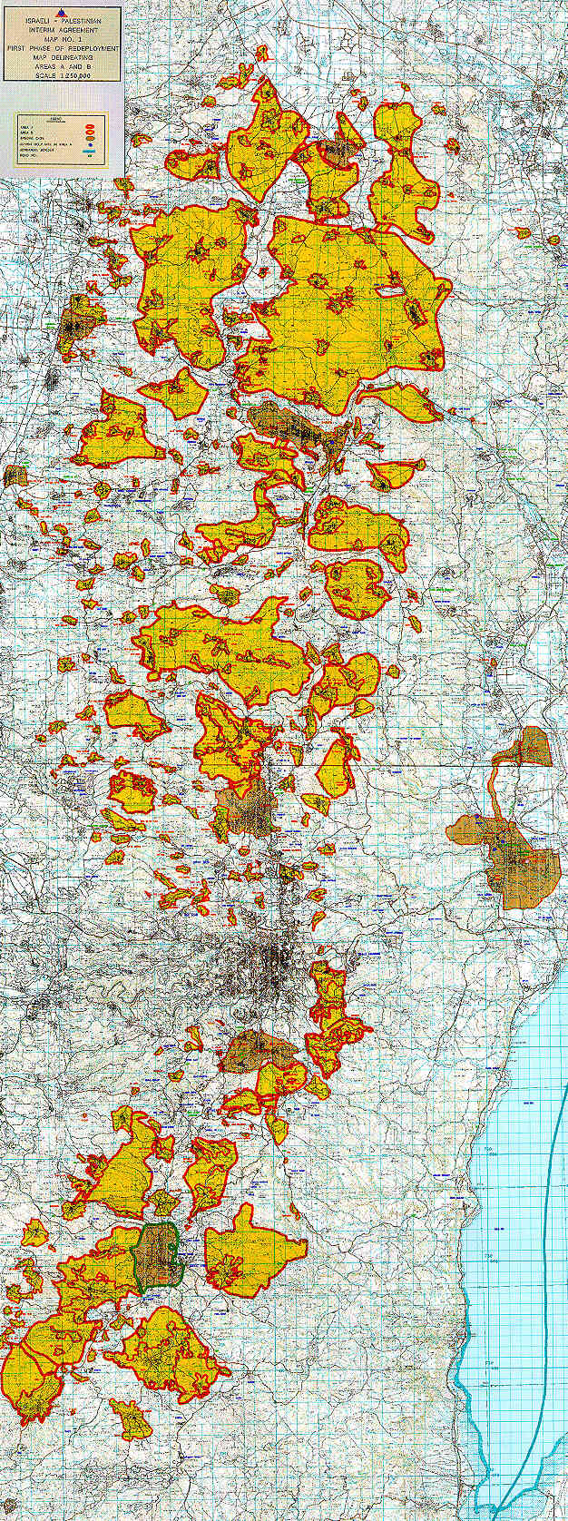 "Israeli-Palestinian Interim Agreement Map No. 1: First Phase of Redeployment, Map Delineating Areas A and B."